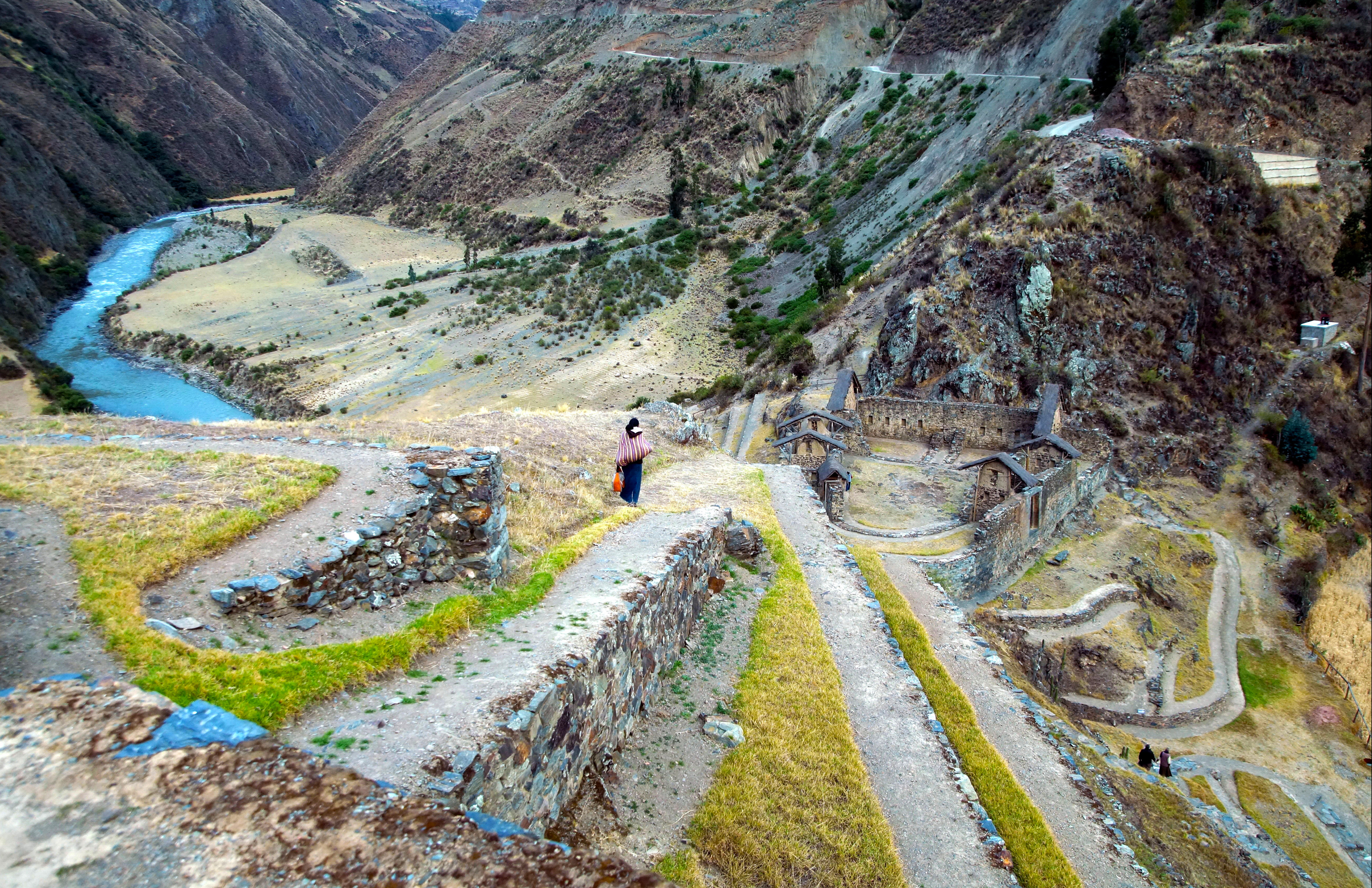 Huatocto (Watocto) inca ruins, Paucartambo, Cusco, Peru.